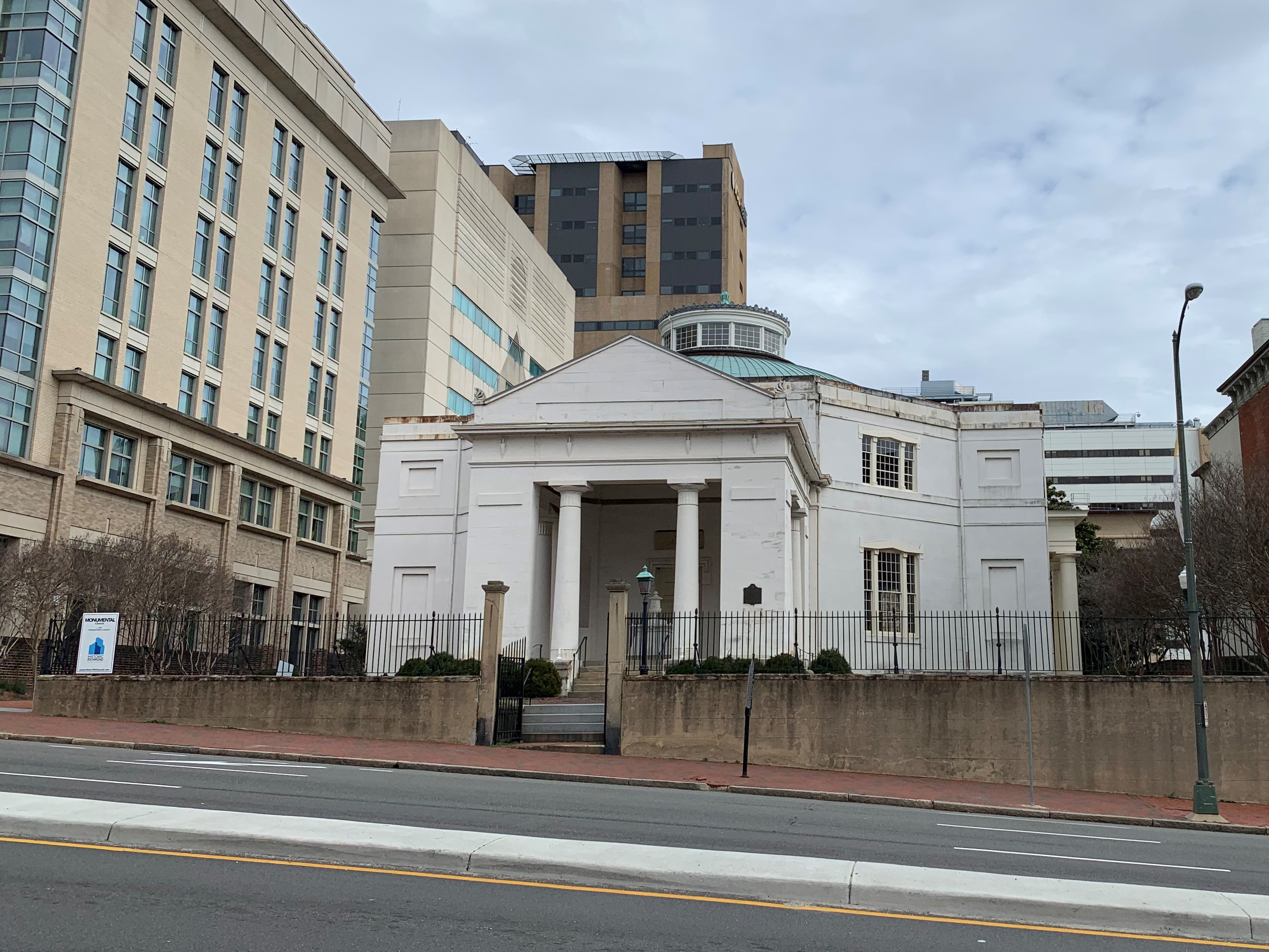 Monumental Church in Richmond, Virginia, as seen from East Broad Street